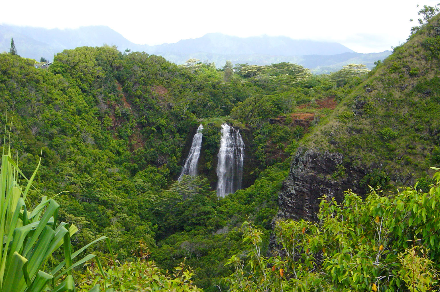 A view of Opaekaa Falls, located along the Royal Coconut Coast of Kauai, Hawaii, 2012.